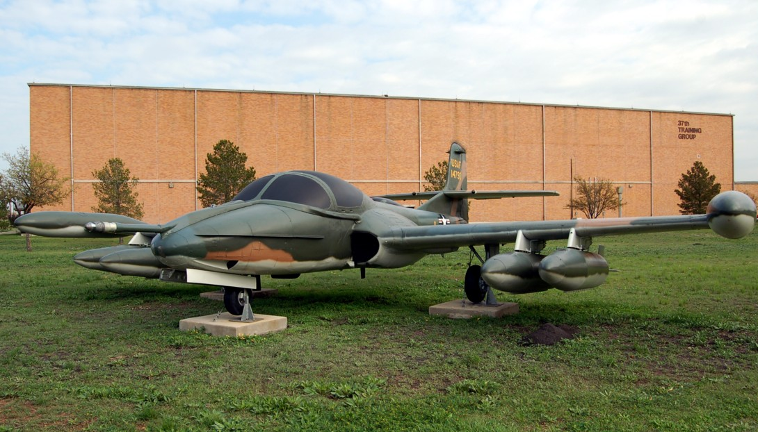 Front view of a Cessna A-37B "Dragonfly". Lackland Air Force Base, San Antonio, Texas (March 2007). Photo by Peter Rimar. This image was taken in direct support of the Aviation WikiProject.